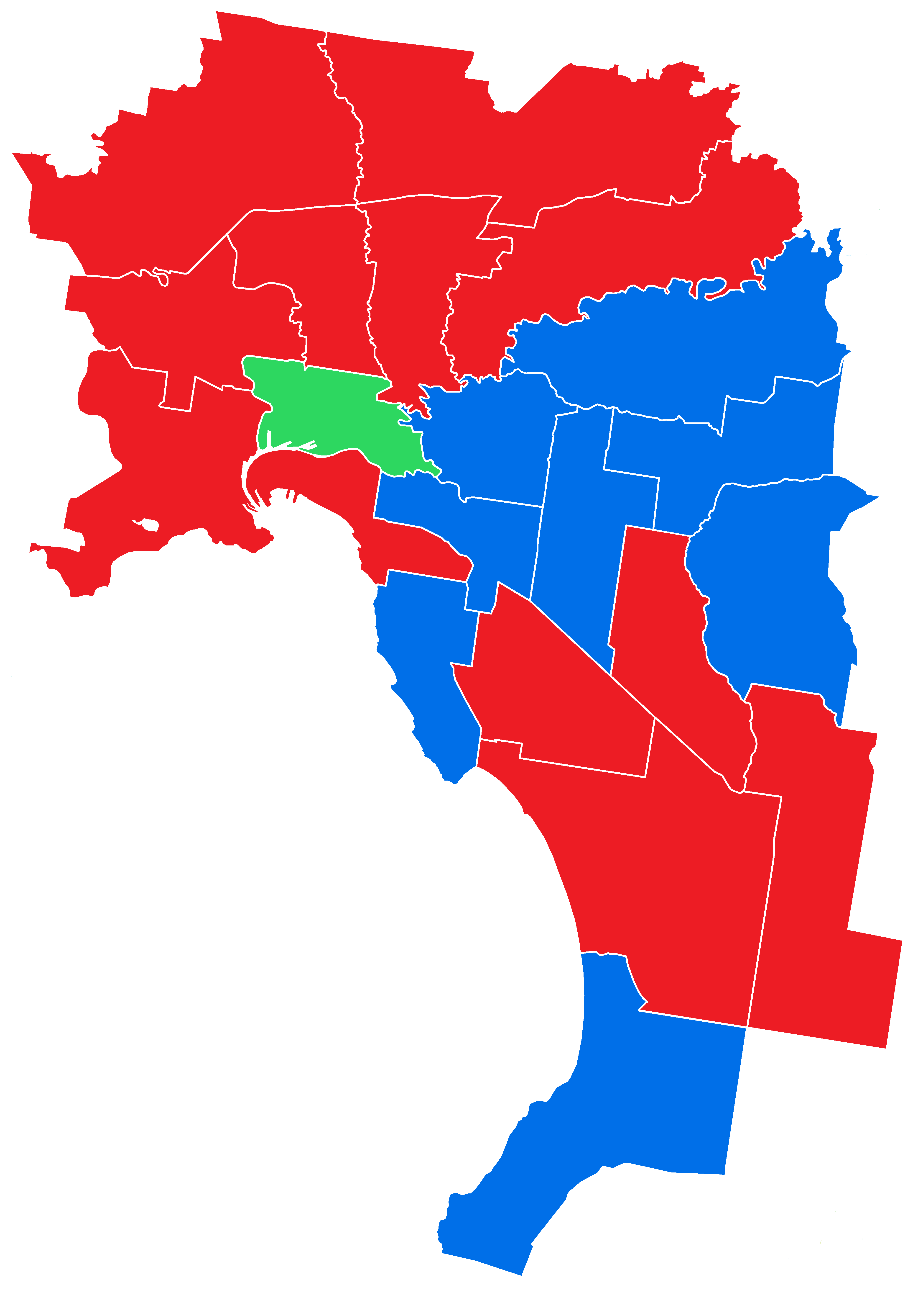 Results map of the Australian federal election, 2016 in Melbourne, showing federal electorates decorated in the color representing a win by a particular party.